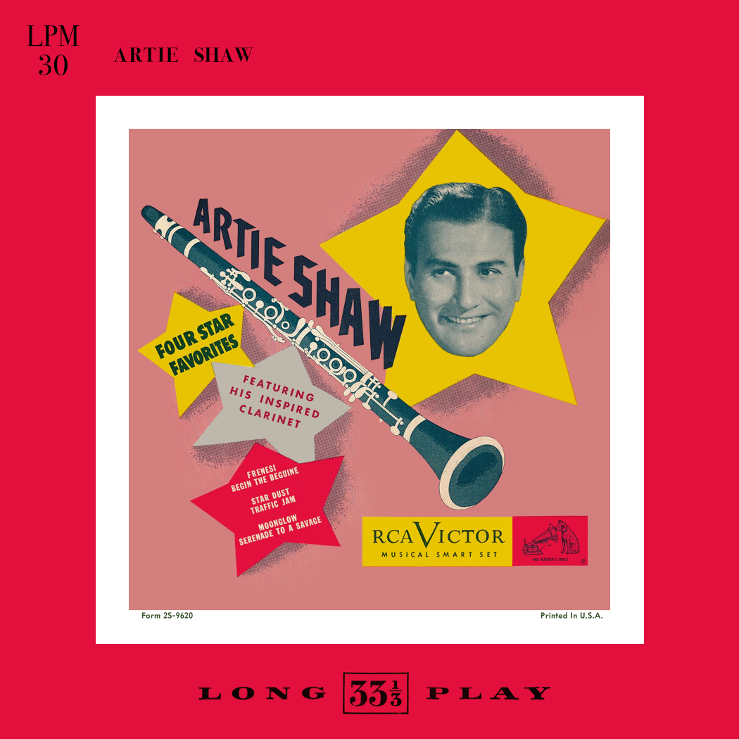 LP version of Artie Shaw's Four Star Favorites album, 1951